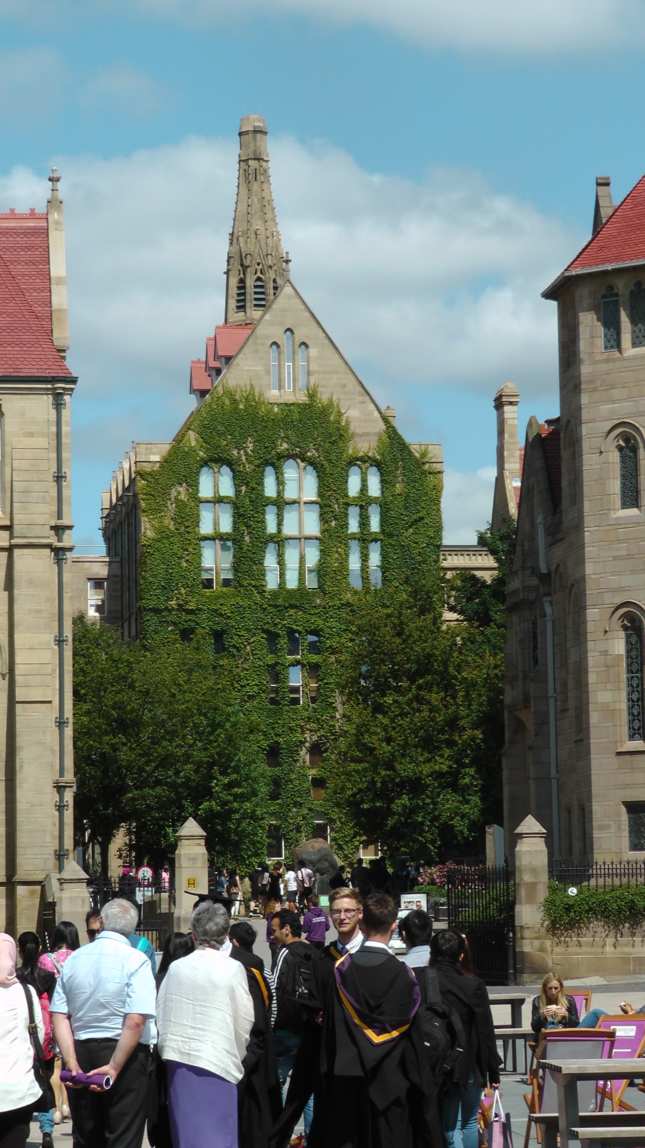 The Beyer Building ,The Old Quadrangle,The University of Manchester.. Built 1888. Funded completely by Beyer. (From Will)